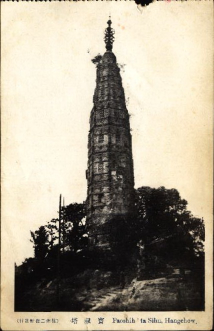 Postcard of West Lake